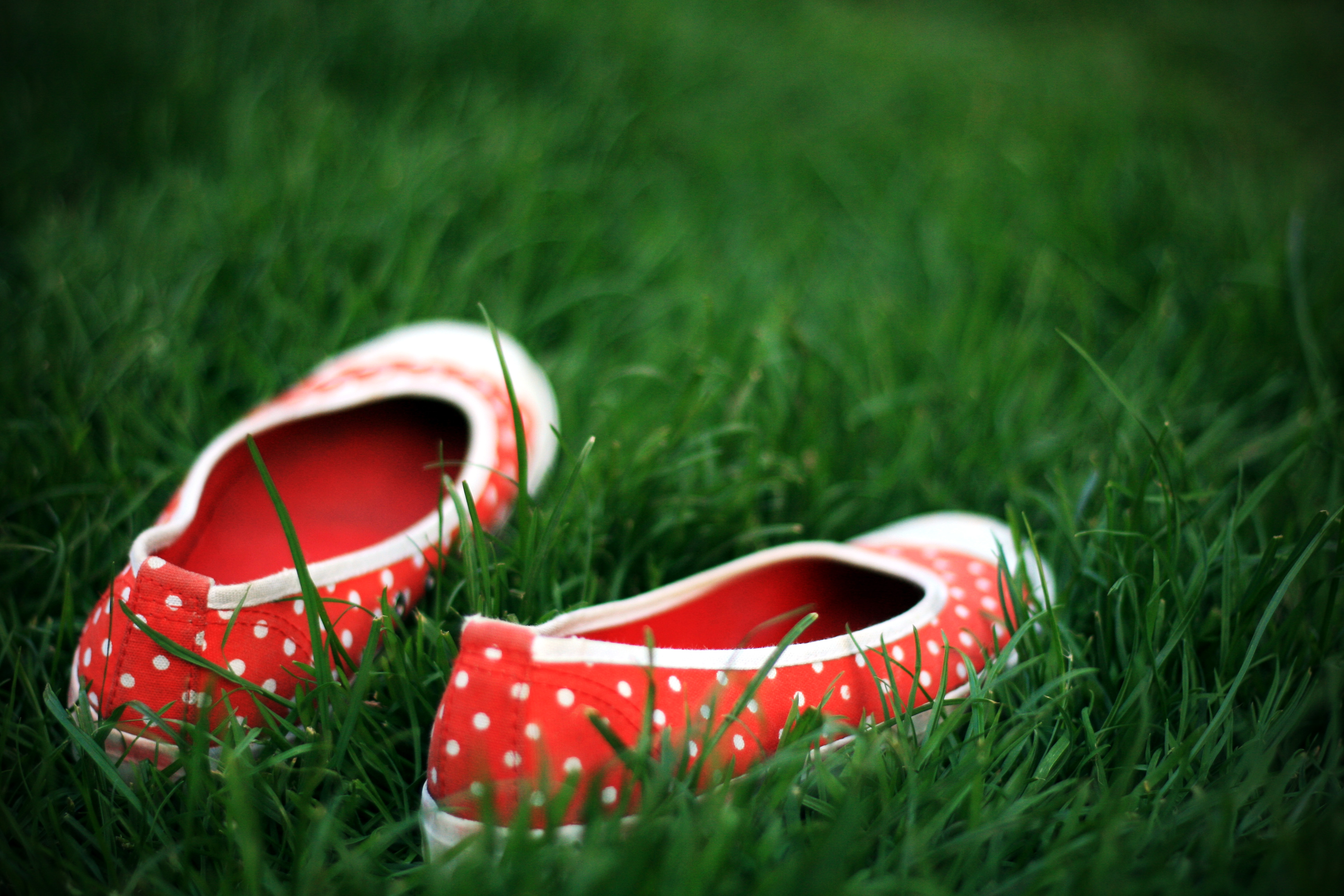 Photo of a pair of shoes in the grass.